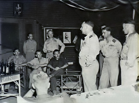 Darwin, NT. In the Sergeants' Mess of No. 1 Medical Receiving Station (RAAF), the Air Officer Commanding the North West Australian area, Air Commodore A. M. Charlesworth (standing centre), welcomes home newly repatriated prisoners of war (POWs). Standing behind him are the Staff Officer (Administration), Group Captain F. Headlam (second from right), and Group Captain C. C. Probert, Senior Equipment Staff Officer RAAF.